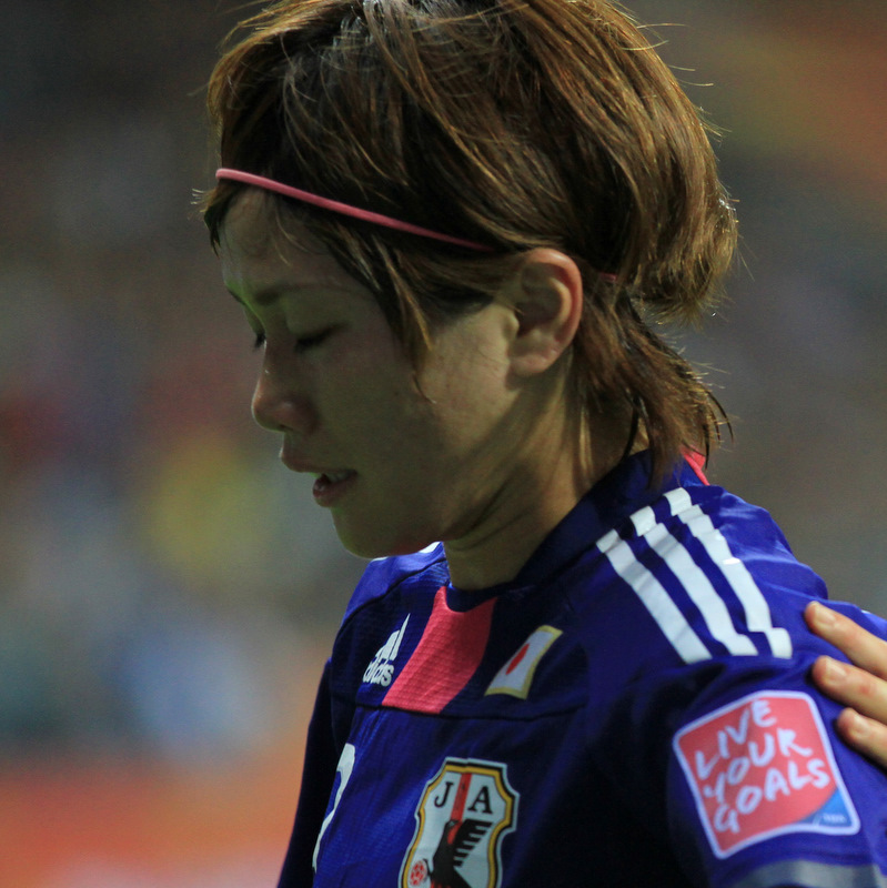 Nahomi Kawasumi playing for Japan against Sweden in the 2011 FIFA Women's World Cup semi finals